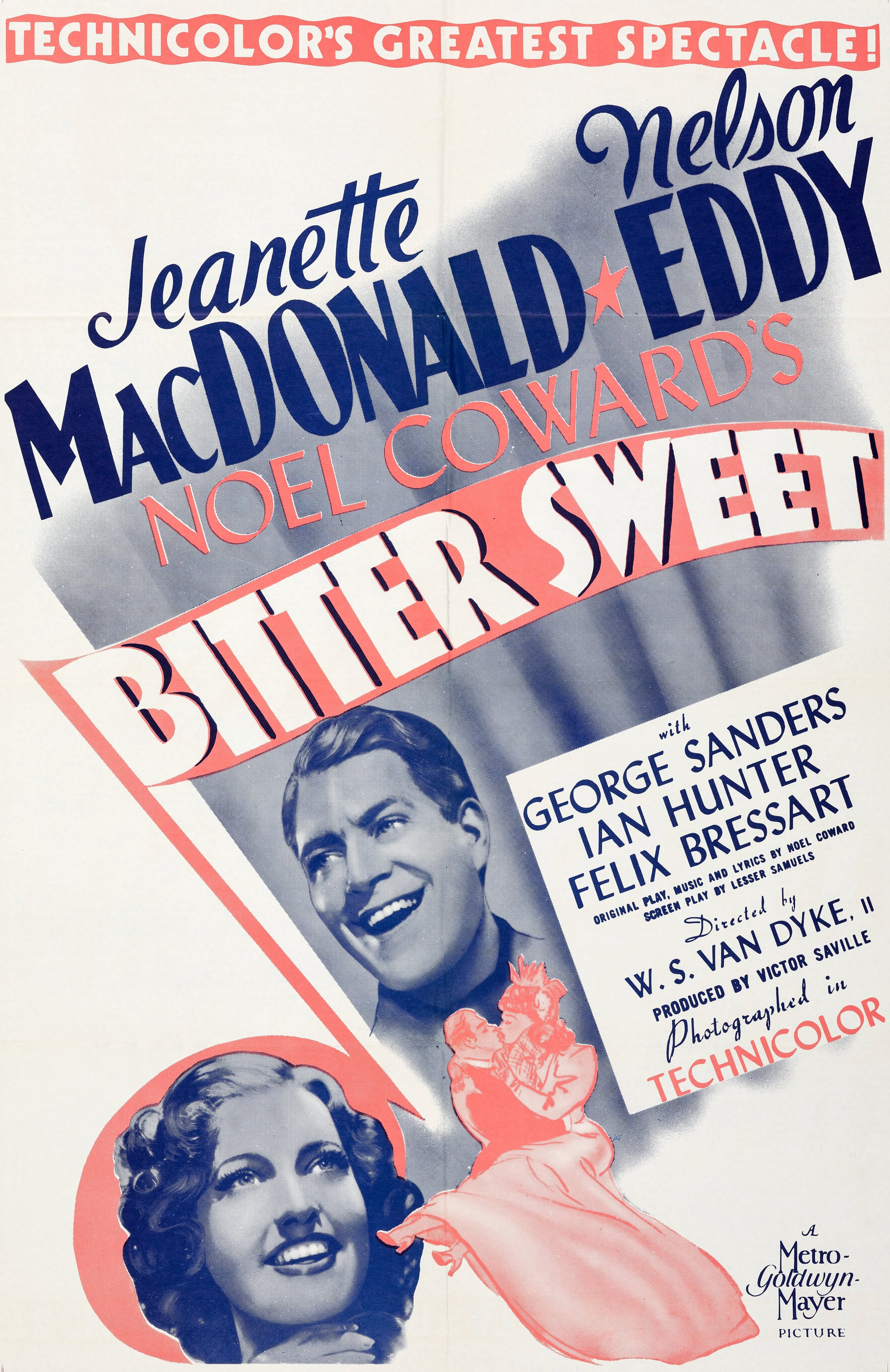 Title from the trailer for the 1940 film Bitter Sweet